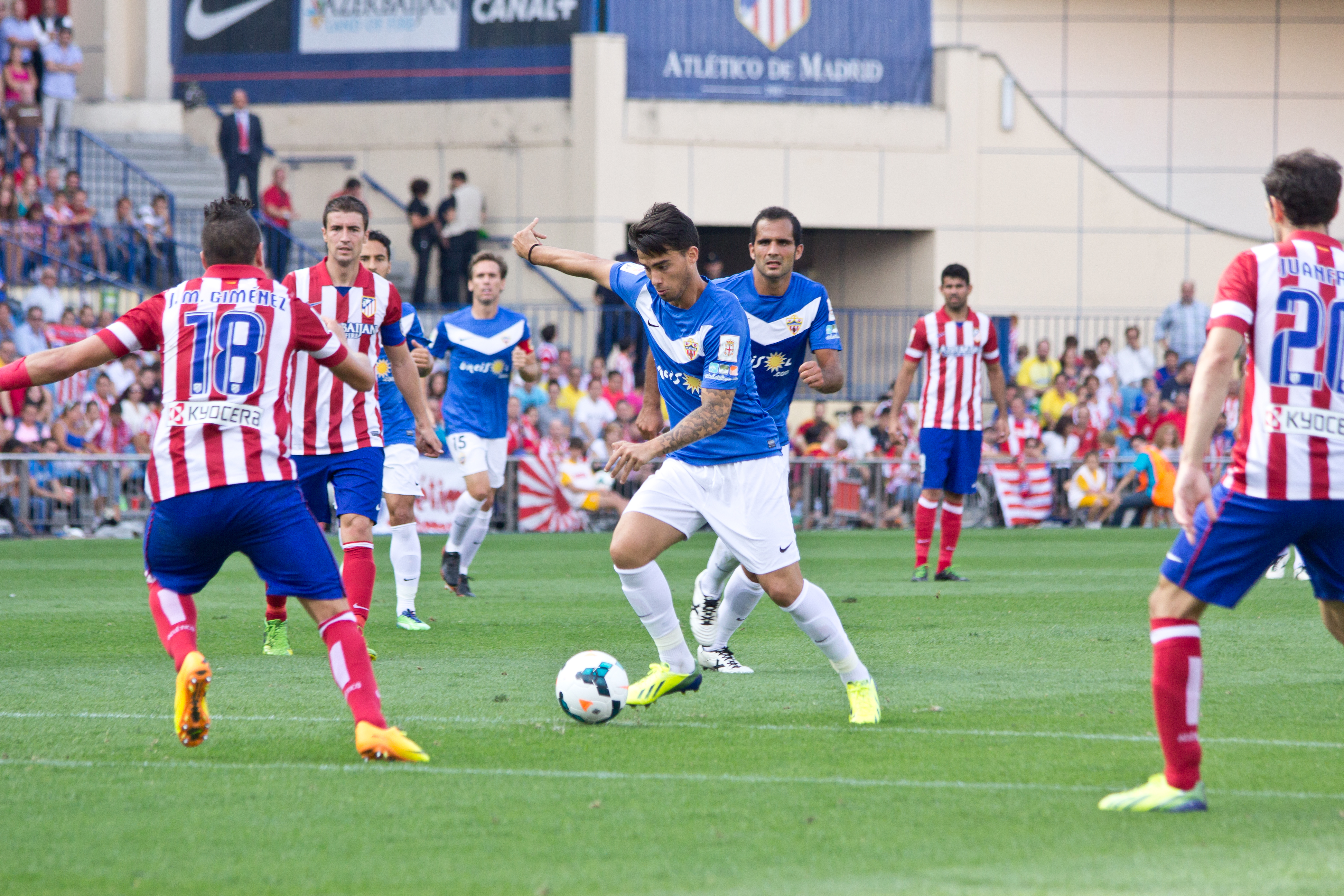 Atlético de Madrid vs UD Almería, 2013-2014 season.